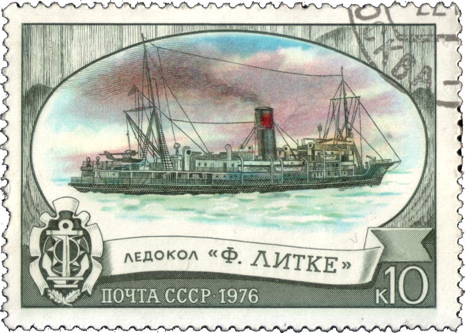 Soviet postage stamp, 1976, commemorating Icebreaker Feodor Litke. CPA #4664